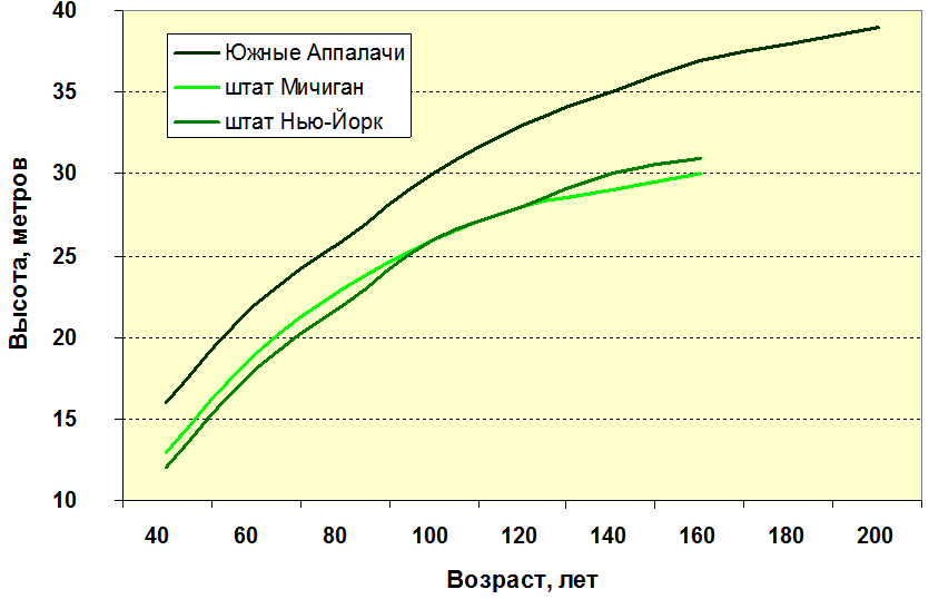 Average dimensions of dominant eastern hemlock trees at selected locations